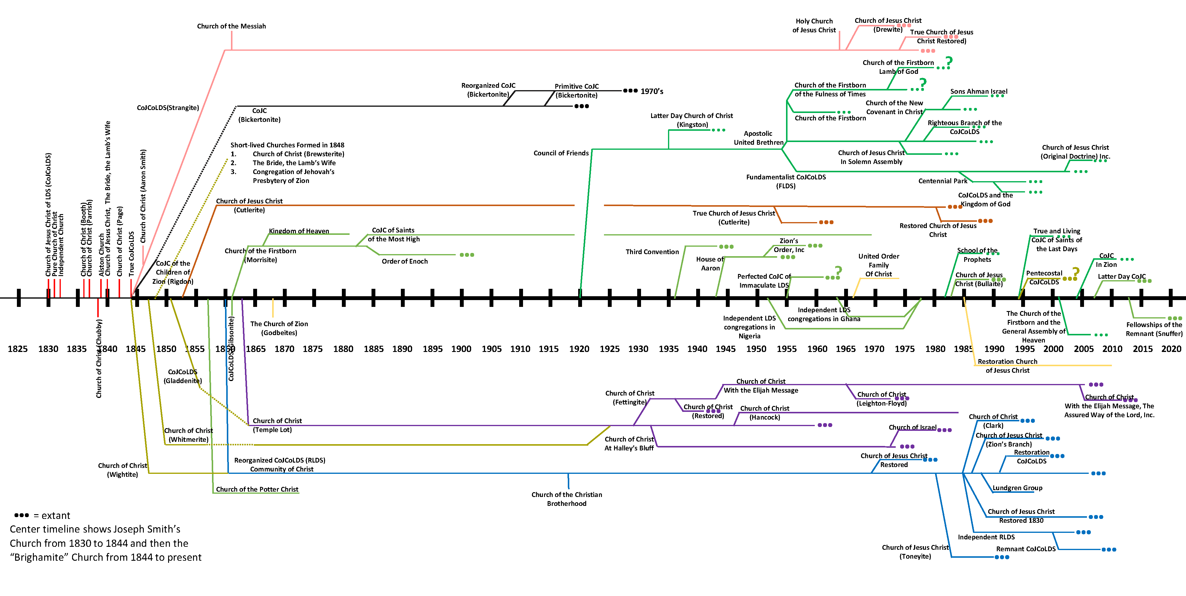 File:Mormon Denominations.pdf in PNG-format.